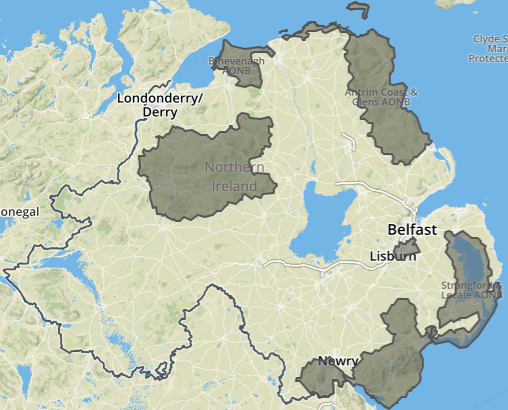 Areas of outstanding natural beauty in Northern Ireland. Map uses OGL data from here and rendering from geojson.io (OSM tiles)